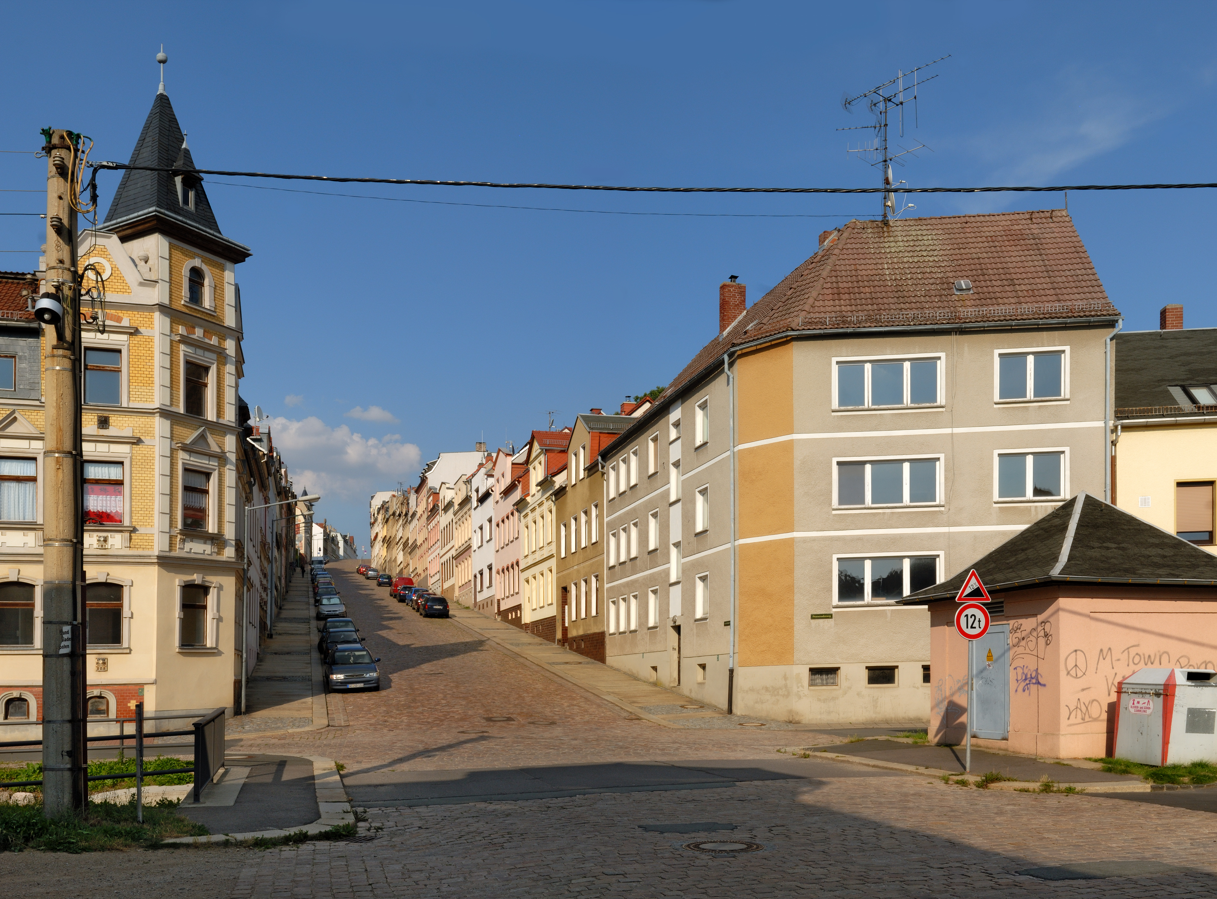 This image shows the “Steile Wand” (“steep wall”) in Meerane, Germany. It is a two segment panoramic image.